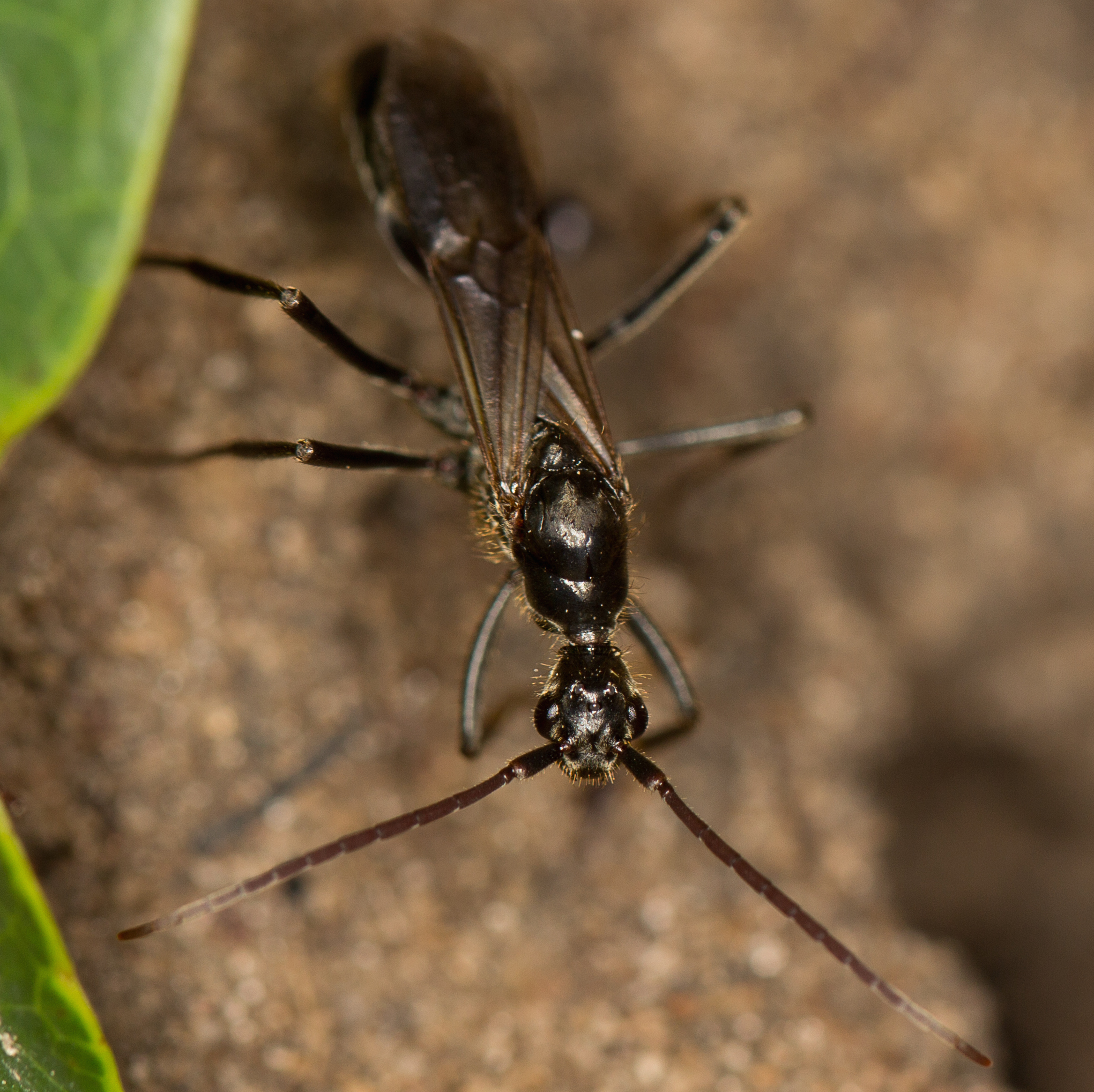 Megaponera analis male